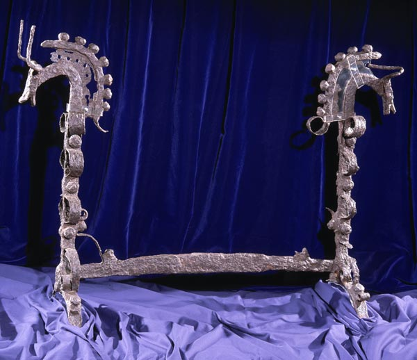 This firedog is unique, and considered to be one of the most important pieces of early decorative ironwork to have been found in Britain. It illustrates the skill and artistic imagination invested in the working of iron during the Celtic Iron Age. It was discovered in 1852 near Capel Garmon, Conwy. Firedogs, usually used in pairs, would have stood next to the hearth at the heart of a roundhouse. The opposed animal heads with both horse and cow affinities have a mythical beast quality, whose significance we can still only guess at.